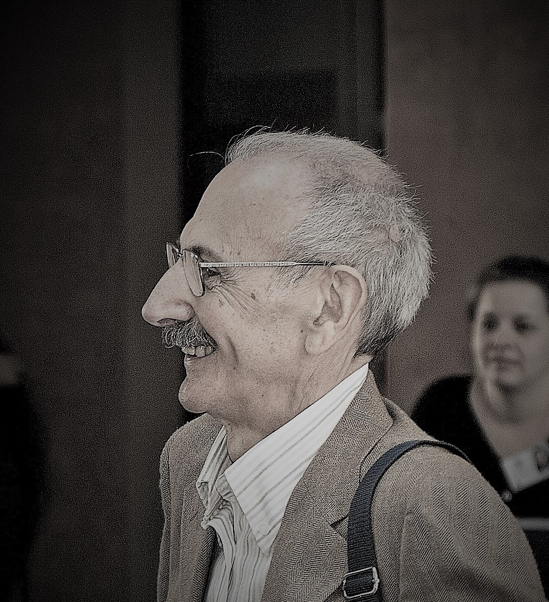 Diego Lanza 2007